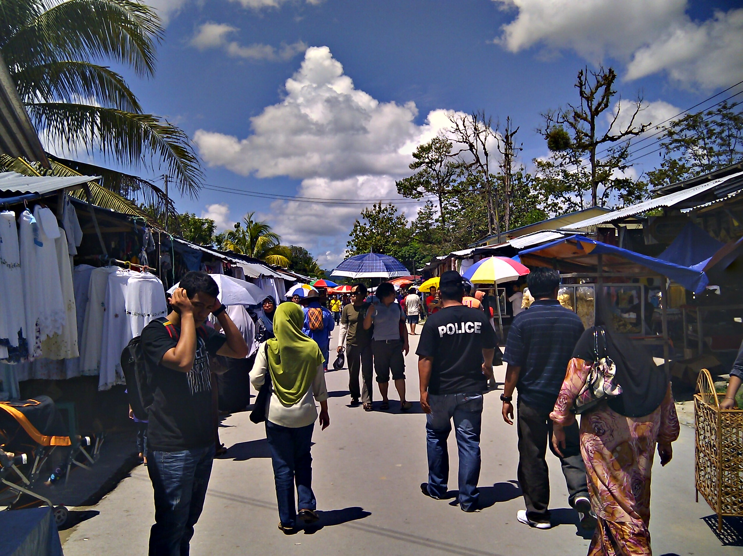 Market in Serikin Town, Bau District, Kuching Division, Sarawak.